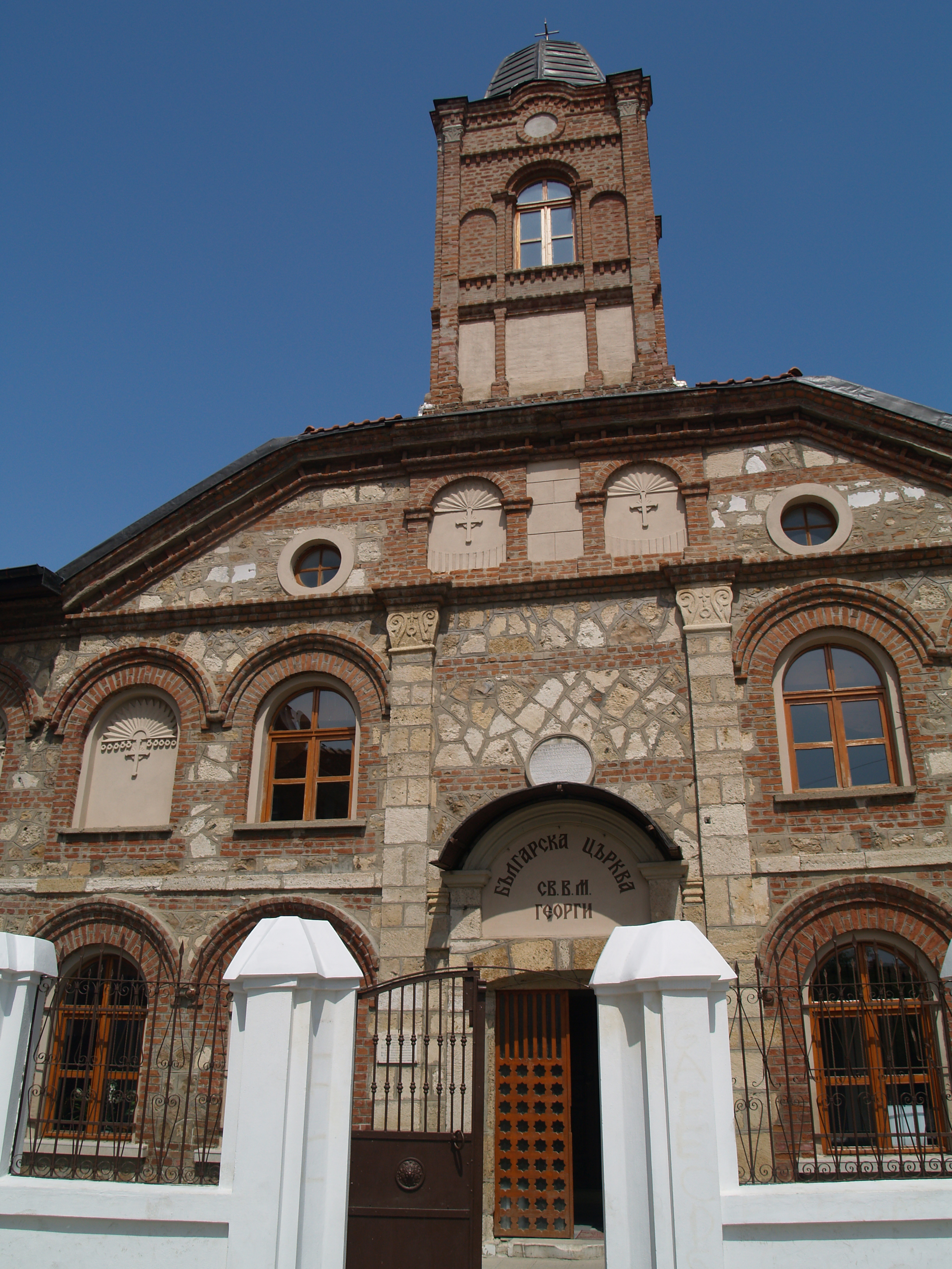 St George Bulgarian Orthodox Church, Edirne, Turkey